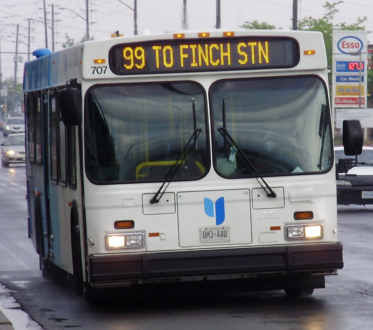 York Region Transit bus 707, a New Flyer Industries D40LF, drives south on Yonge Street just south of Steeles Avenue serving the 99 Yonge South route. The price of gasoline was $1.277/liter on the day this was taken, as evidenced by the sign in the background.